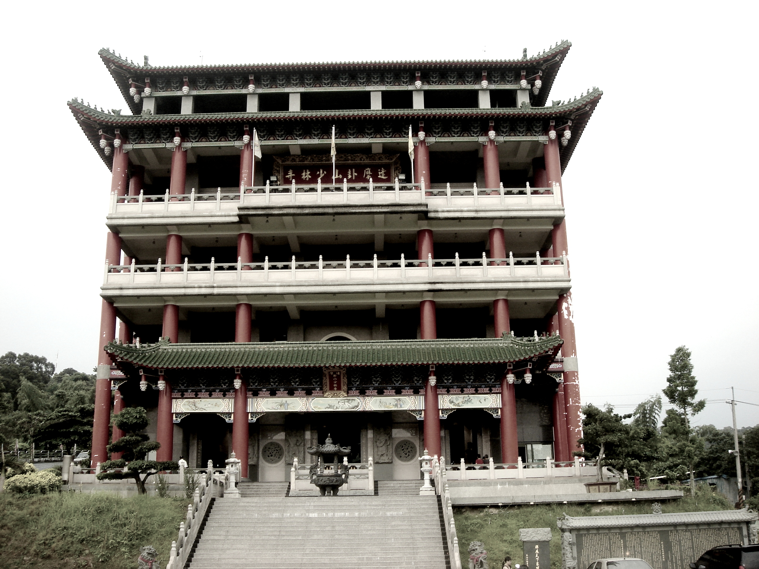 Guashan Shaolin temple.